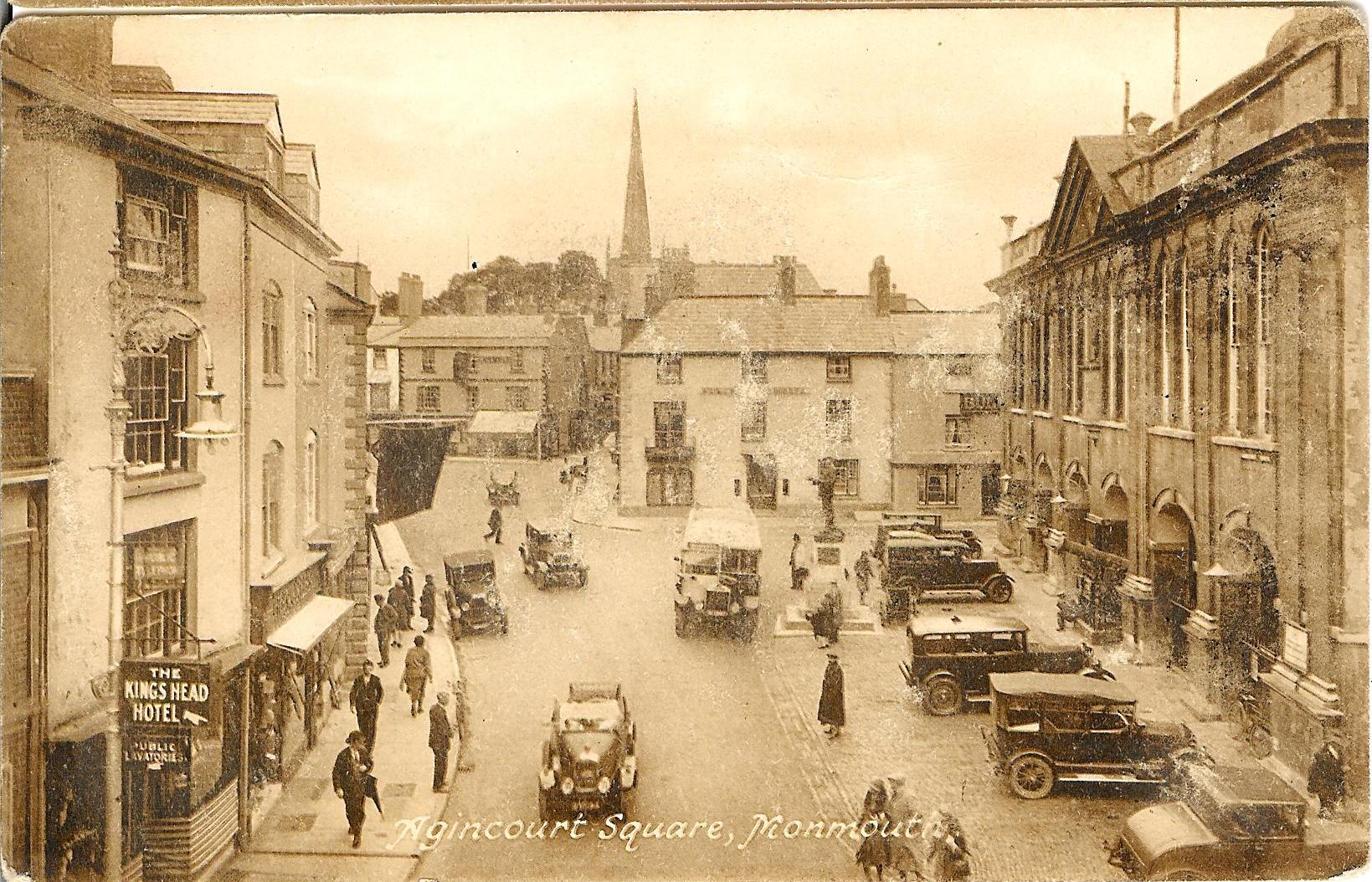 1930s Postcard of Monmouth Agincourt Square